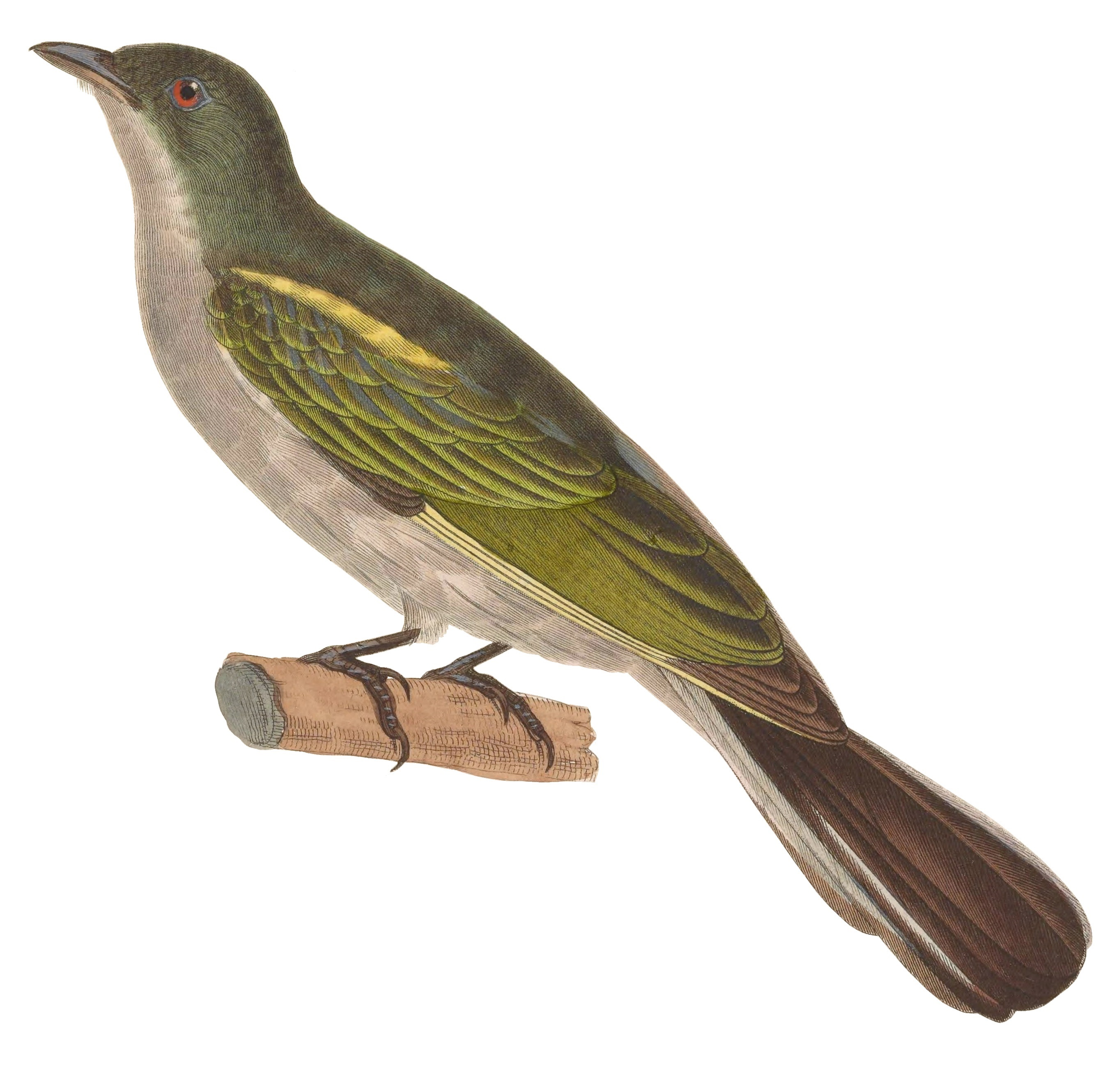 « Indicator archipelagicus » = Indicator archipelagicus (Malaysian Honeyguide)